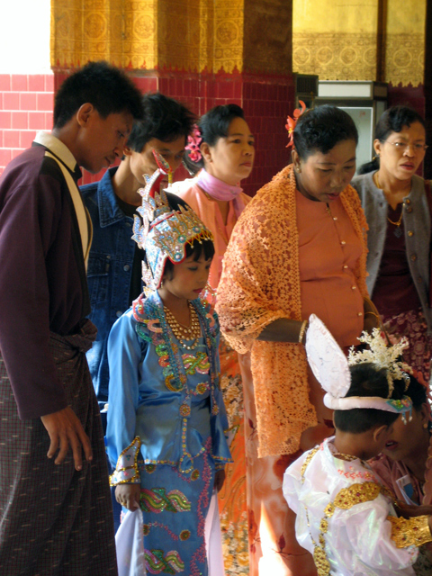 Ear piercing ceremony (na thwin) Mahamuni Buddha Mandalay, Mandalay Division, Myanmar